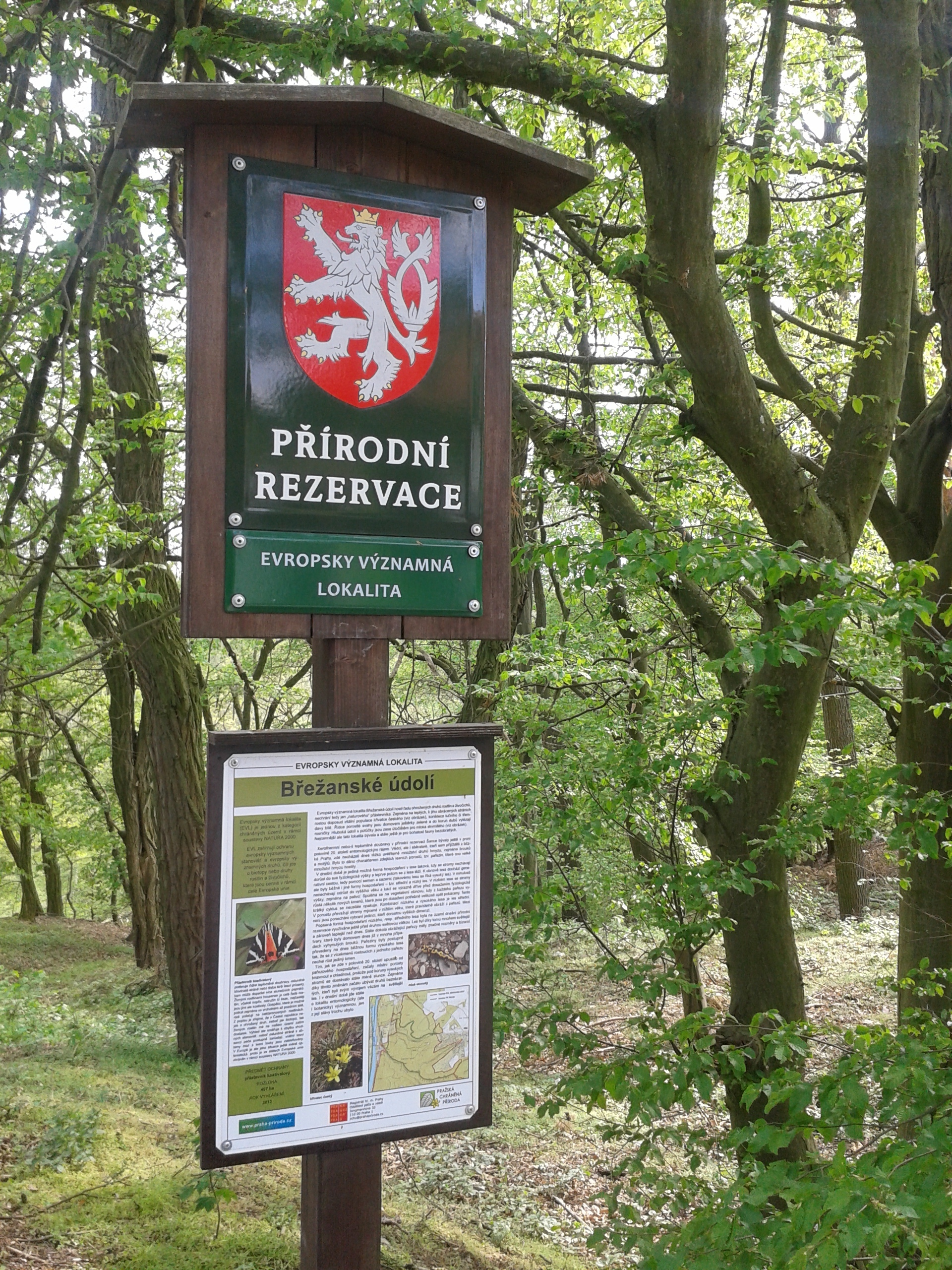 Točná ravine (part of Nature Reserve Šance) with the sign of European Important Location Břežanské údolí (Břežany Valley)